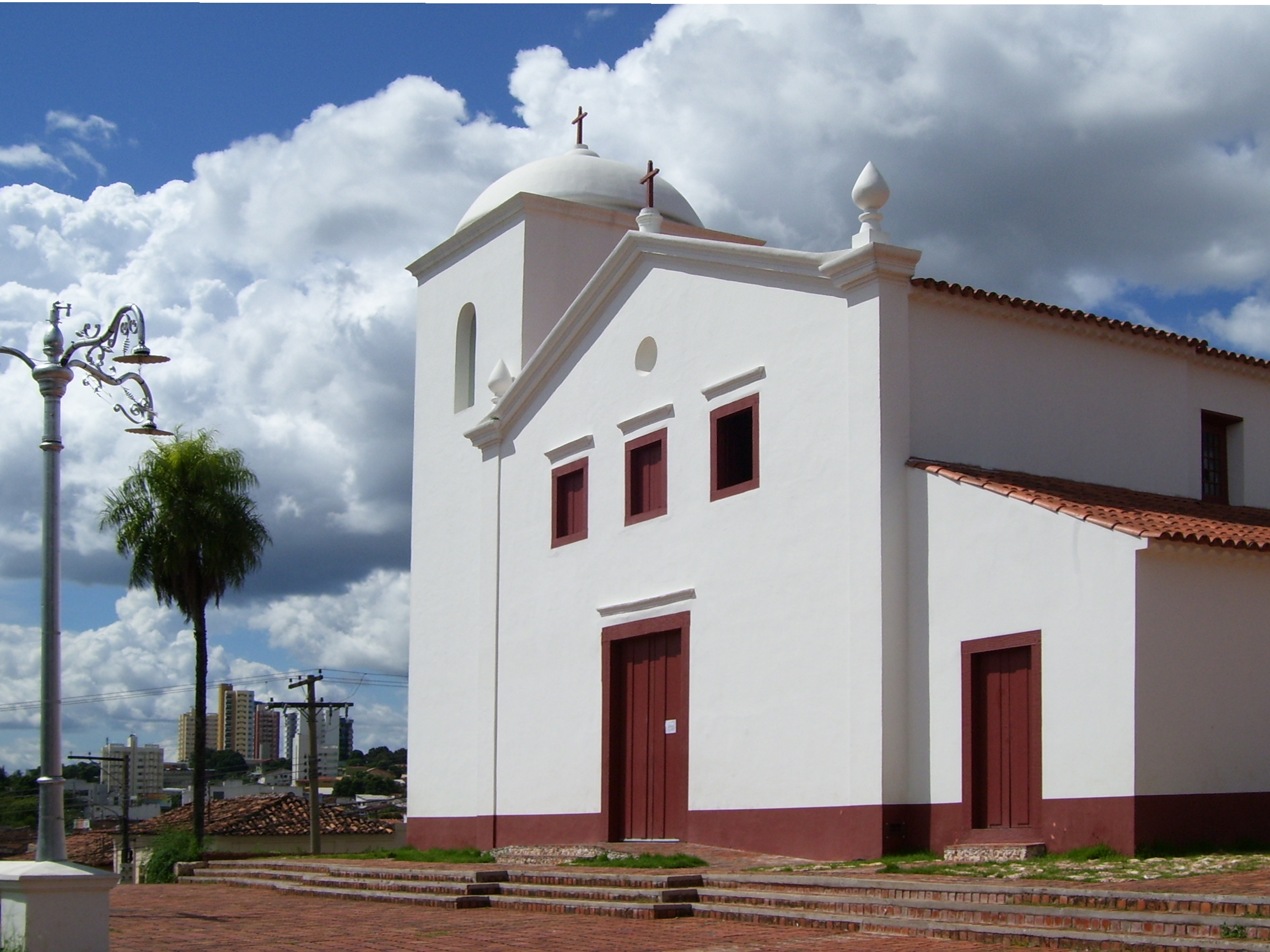 Church of Our Lady of the Rosary and the Saint Benedict's Chapel, Cuiabá, Mato Grosso, Brazil.